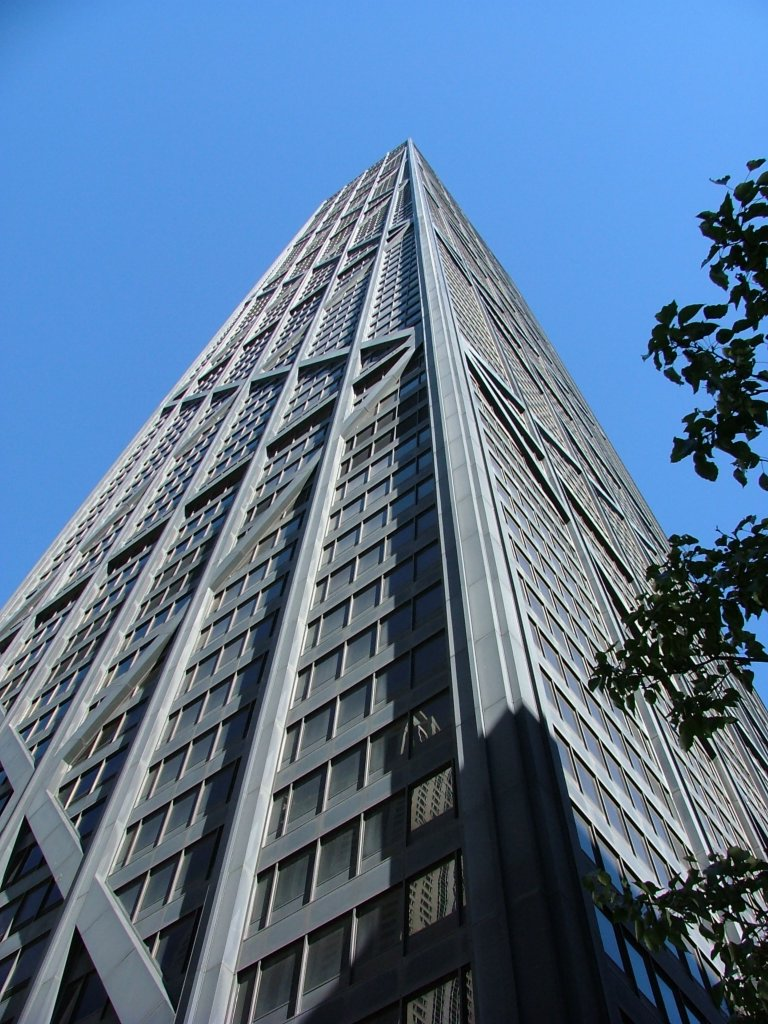 DSCF5388: John Hancock